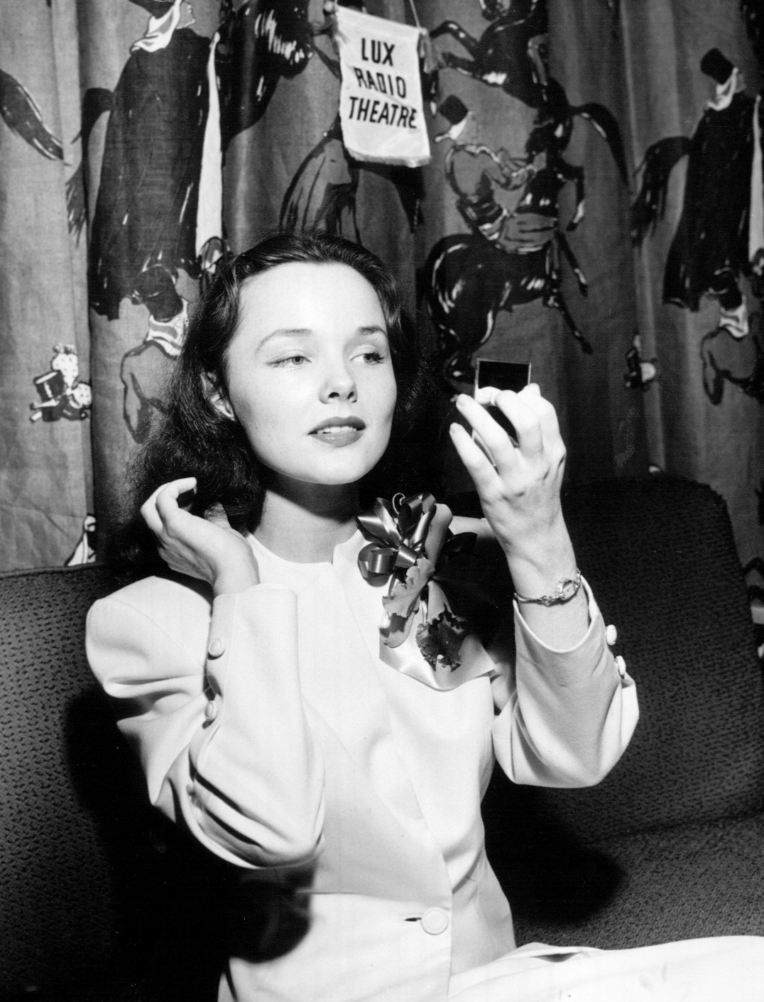 Wanda Hendrix checks her makeup before a performance on Lux Radio Theatre (The program had a studio audience.)